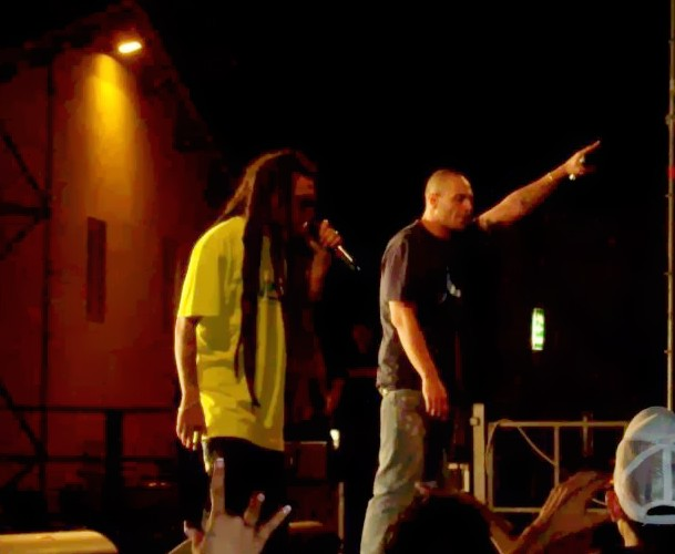 The italian rappers Vacca and Fabri Fibra